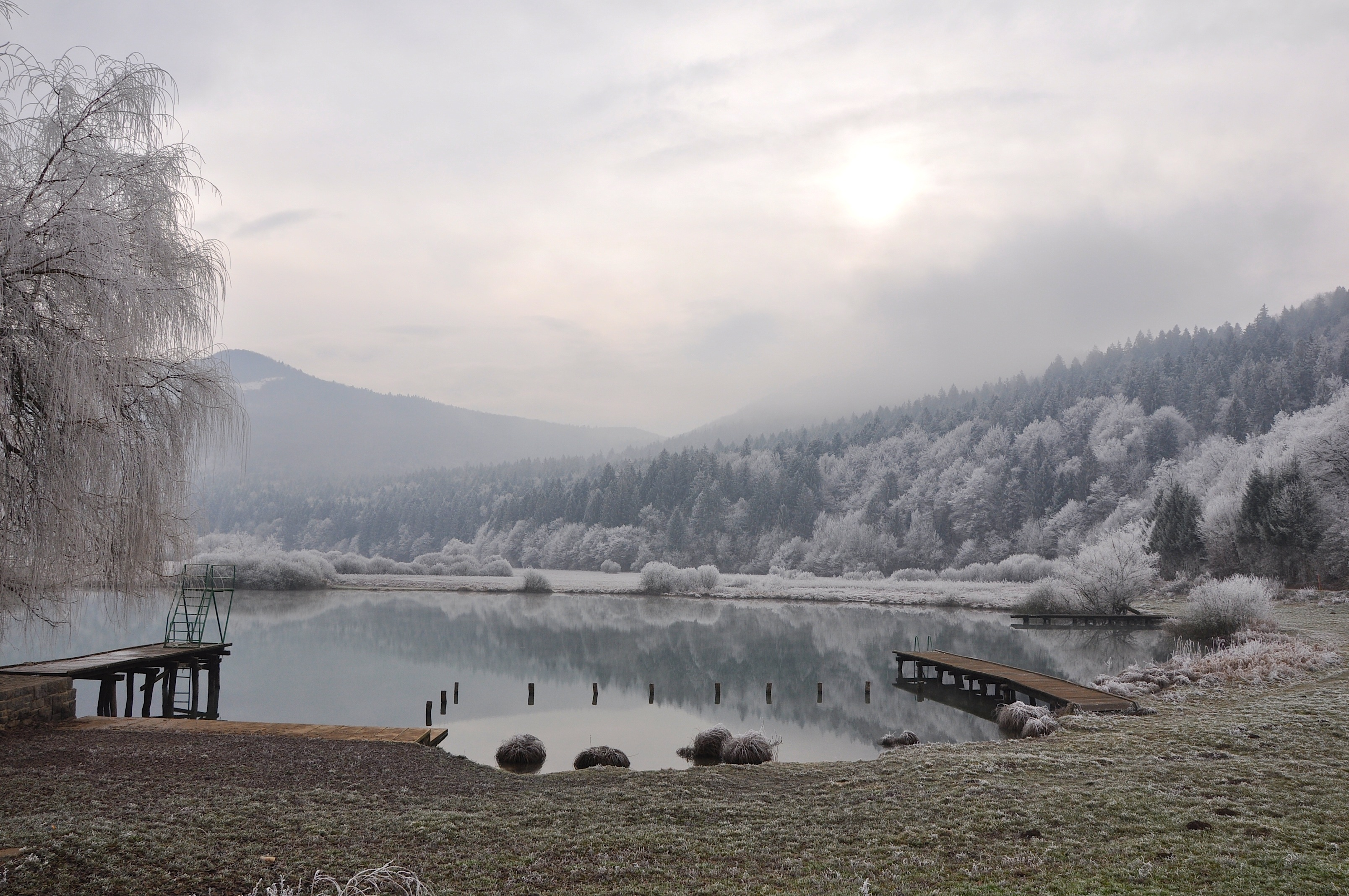 Podpeč lake, Slovenia